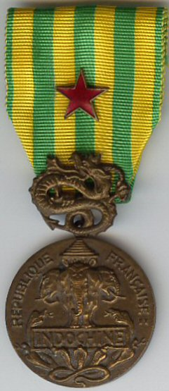 Indochina commemorative medal bearing a wound star as prescirbed by regulations. (France)